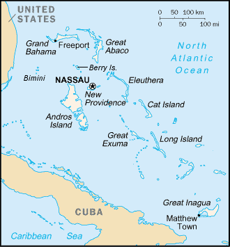 From Image:Bf-map.gif with more islands identified in the NW sector.